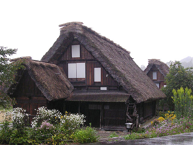 Photo by Yosemite. Adjustment by Gleam Place : Shirakawa-go in Gifu Pref,Japan. This image was moved from jawp. See the original image's history at Image:Gassho style houses.jpg. Dual licensing at Commons was granted by both Yosemite and Gleam.